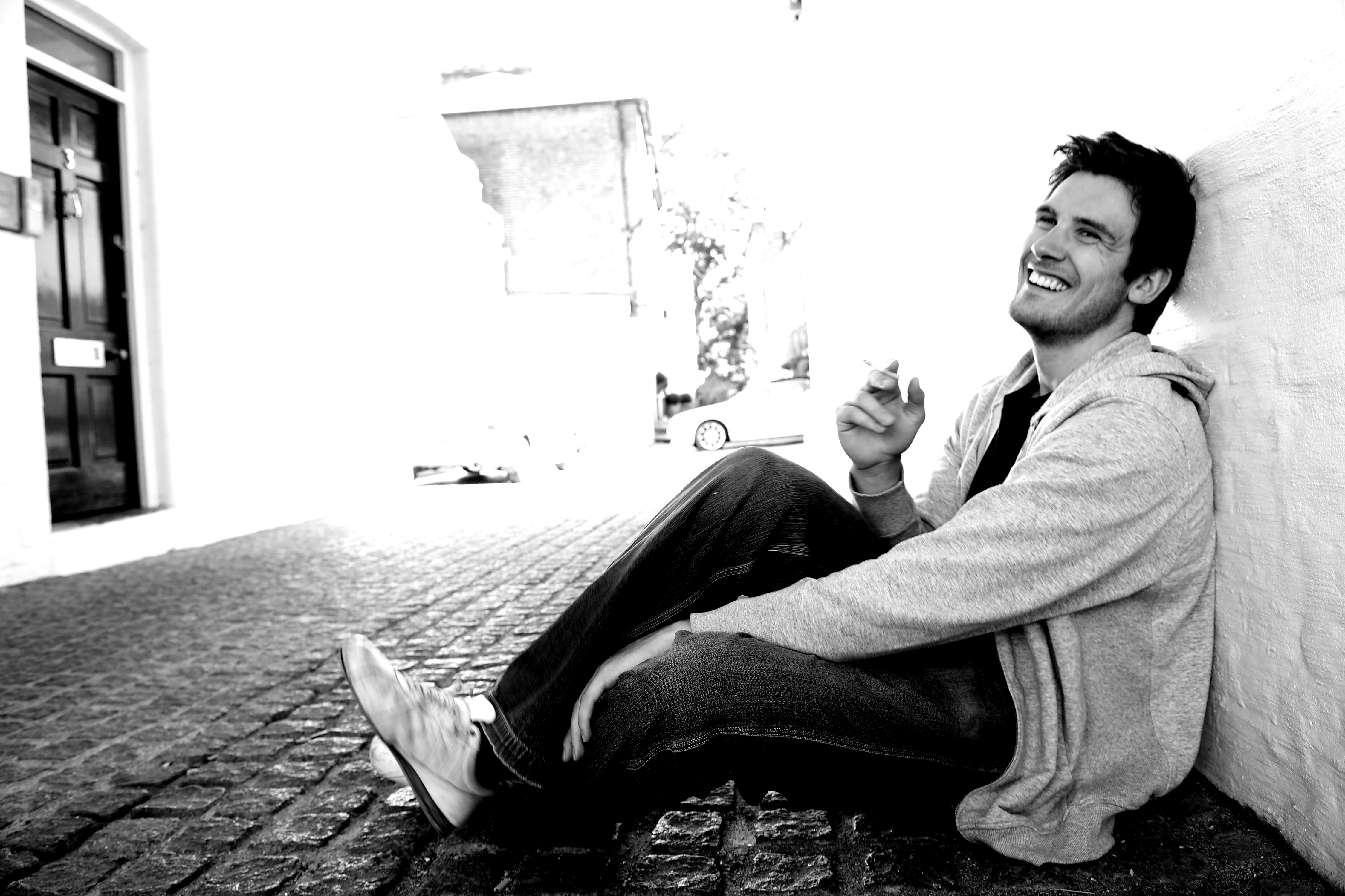 Clive Standen - Actor